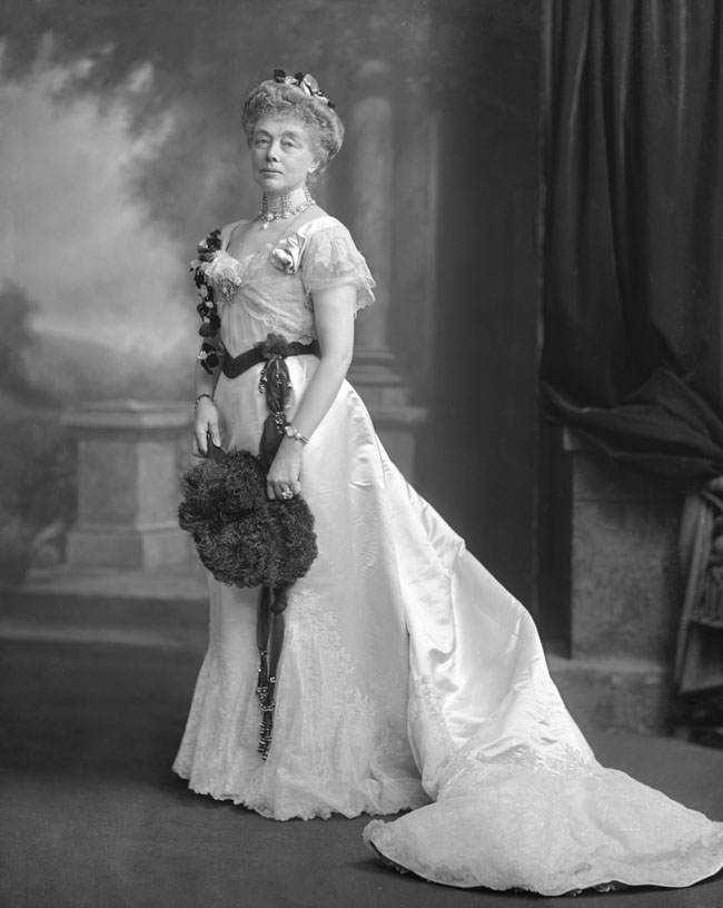 Mrs Joseph Hodges Choate, née Caroline Dutcher Sterling, photographed 13 May 1902. Sitter: Mrs Joseph Hodges Choate, née Caroline Dutcher Sterling; daughter of Frederick A. Sterling of Cleveland, Ohio; m. (1861) Joseph Hodges Choate (1832-1917), US Ambassador to Great Britain 1899-1905. From The Sketch Coronation Number, 13 August 1902, p 133. Mrs. Choate, the lady who is now acting as hostess to our innumerable American Coronation guests, possesses the great distinction of being the wife of the wittiest citizen of the United States. Though an old story, the pretty compliment paid by Mr. Choate to the Ambassadress is well worth repeating. “If you were not yourself, who would you be?” was asked of the Ambassador. Why, Mrs. Choate’s second husband!” came the instant reply. The Ambassador and Ambassadress had a unique compliment paid them by King Edward and Queen Alexandra. Early in June, their Majesties dined at the American Embassy, an honour never before granted by a British Sovereign to the representative of a foreign power.